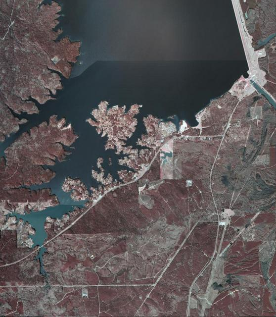 A satellite image of South Toldeo Bend, Texas